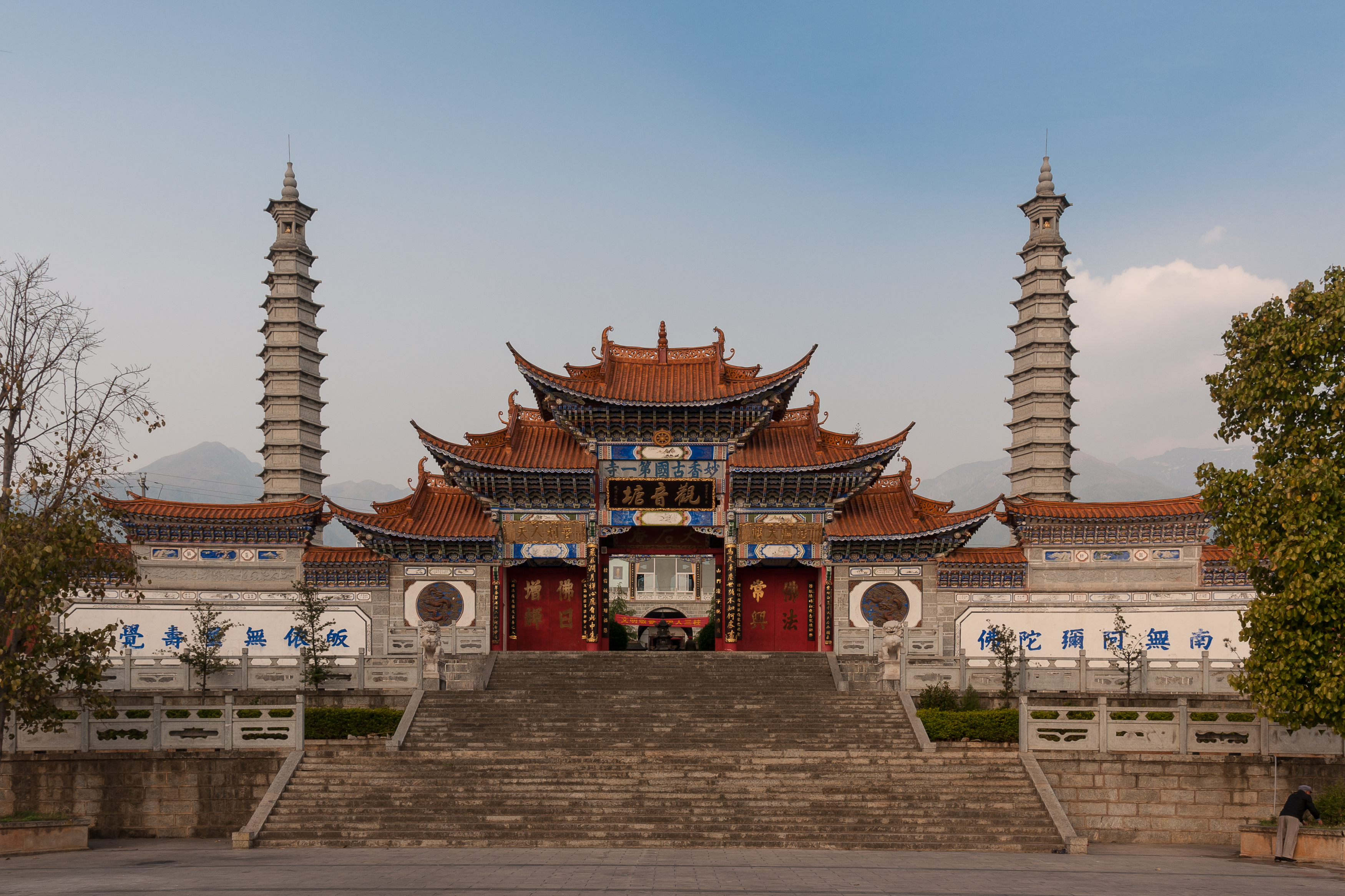 Dali, Yunnan, China: Temple right across the street in front of the west gate of historic town walls of Dali